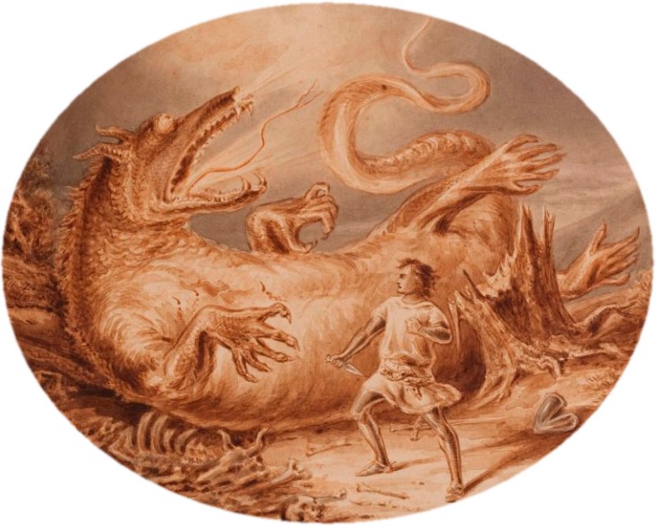 Dragon of Geldern